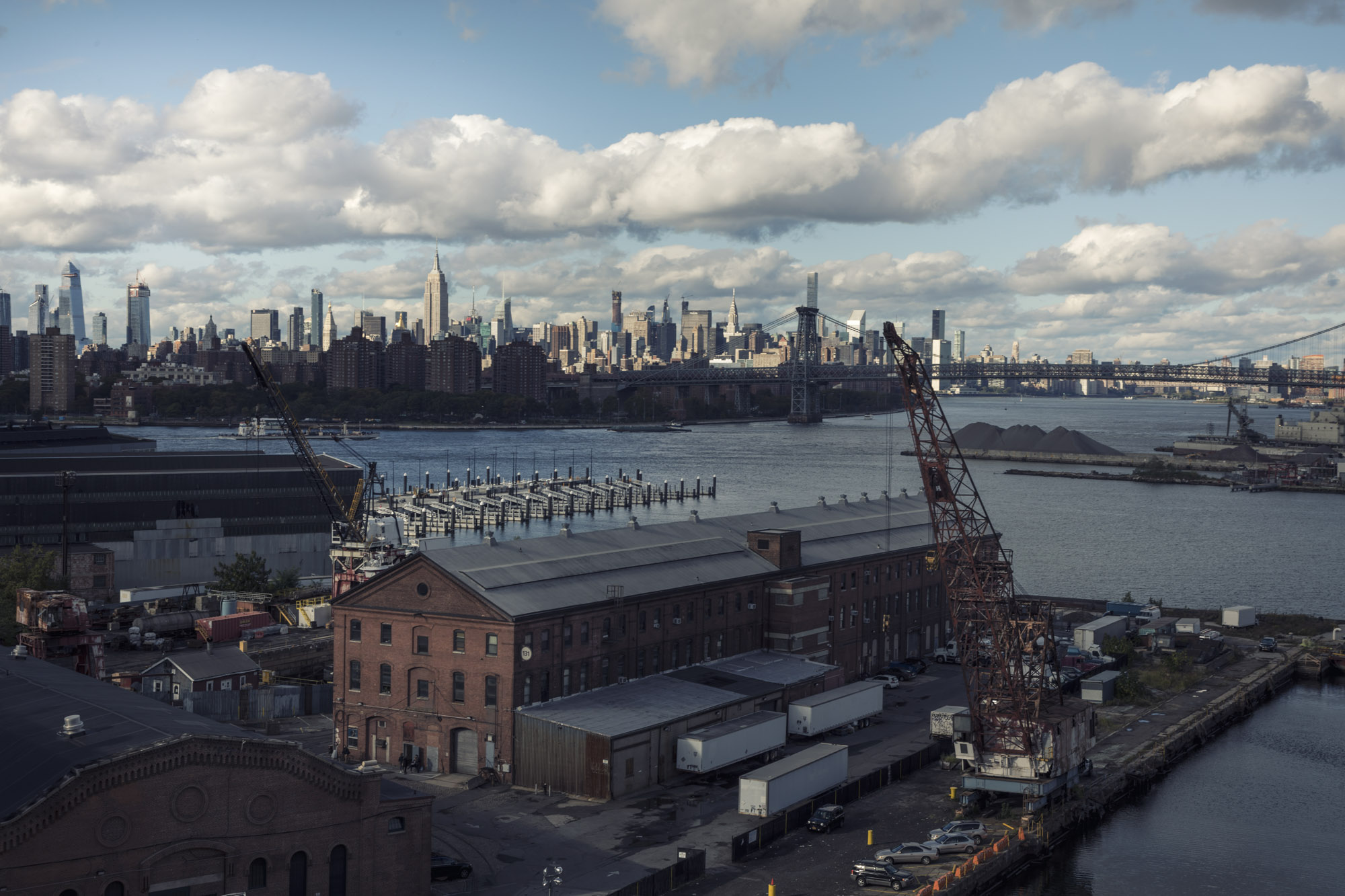 OHNY 18, Brooklyn Navy YardsSite: Brooklyn Navy Yard